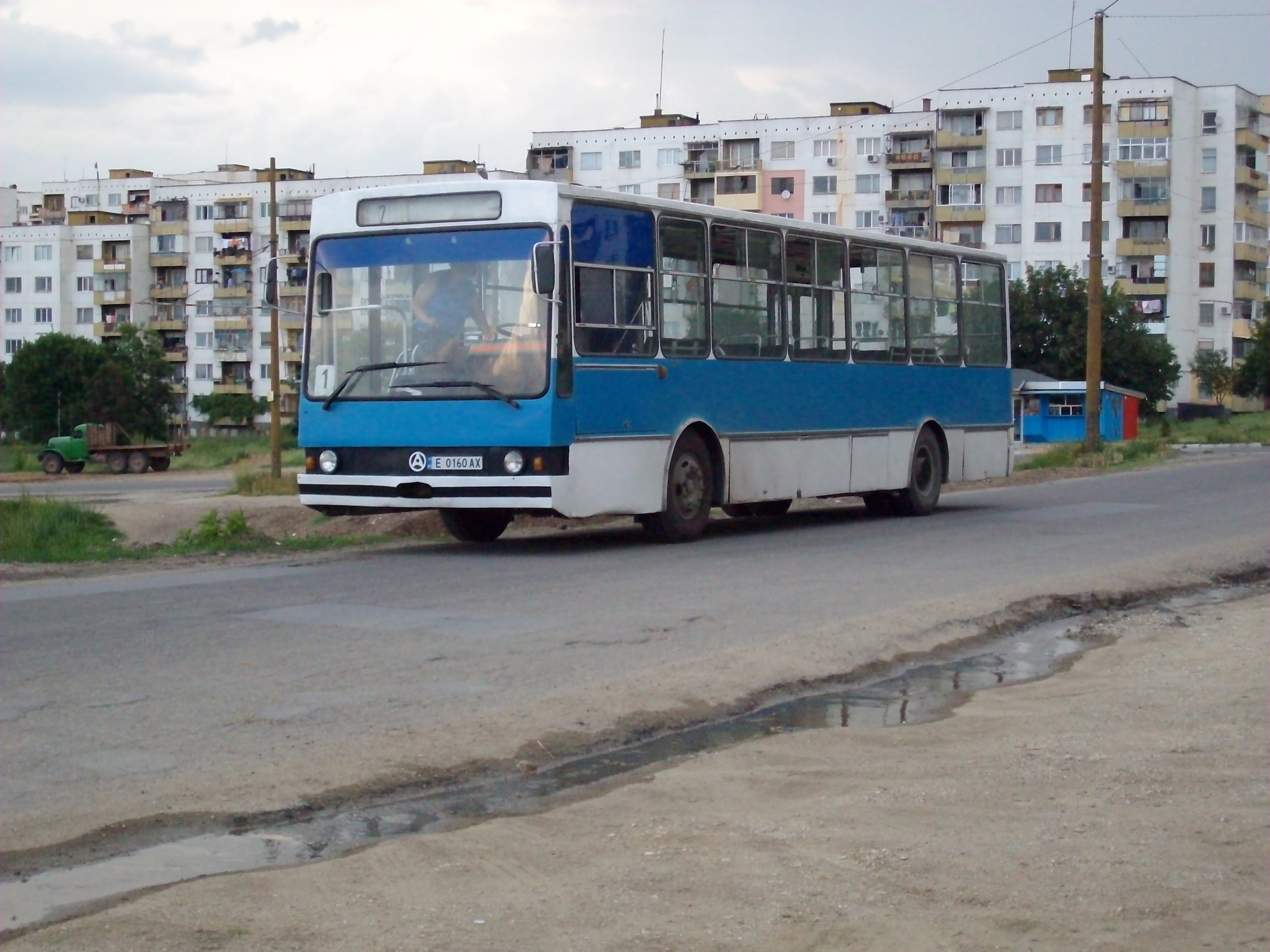 Chavdar B 13-20 bus (reg. E 0160AX) in Bulgaria.